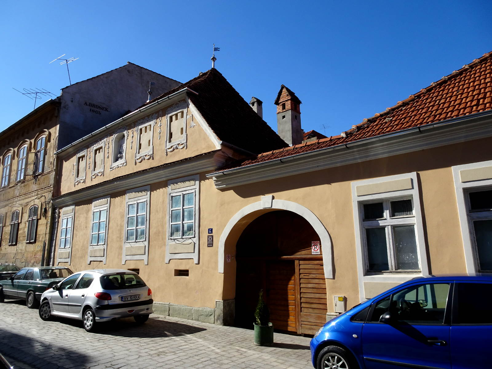 Strada Cerbului in Brasov, house number 34, historic monument